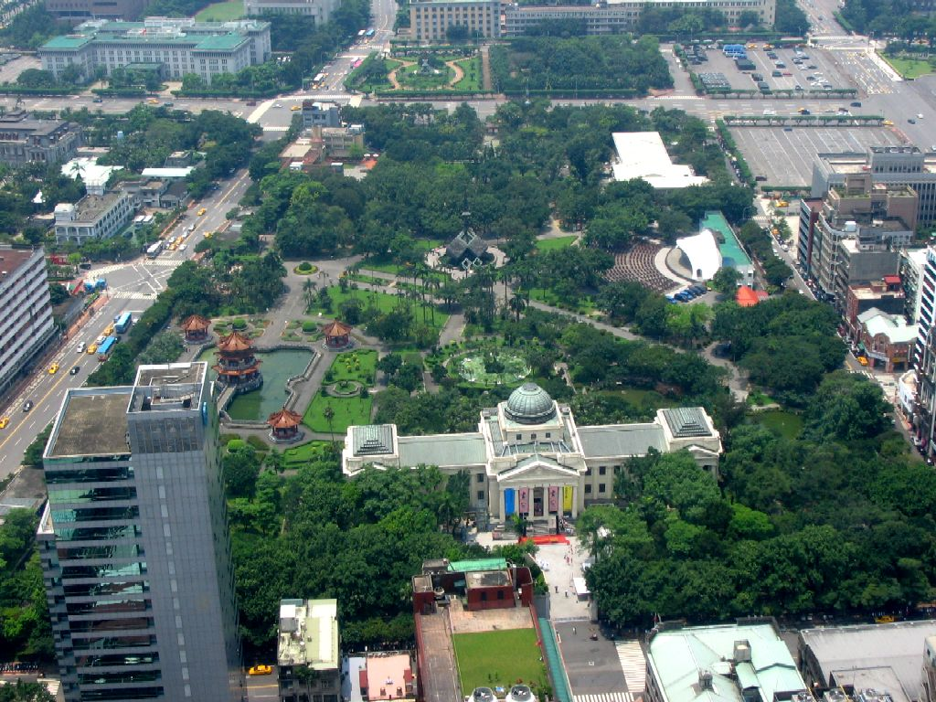 The 228 Memorial Park, previously known as the New Park, in Taipei's Zhongzheng District. The 228 Monument is located at the center of the park. Picture taken July 2, 2005 by Allen Timothy Chang on the observation deck of the Shin Kong Life Tower.